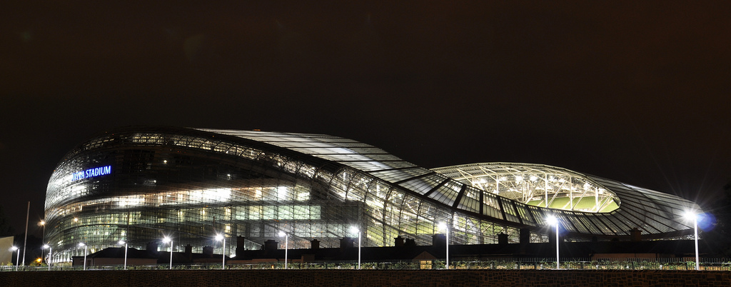 Aviva Stadium at night